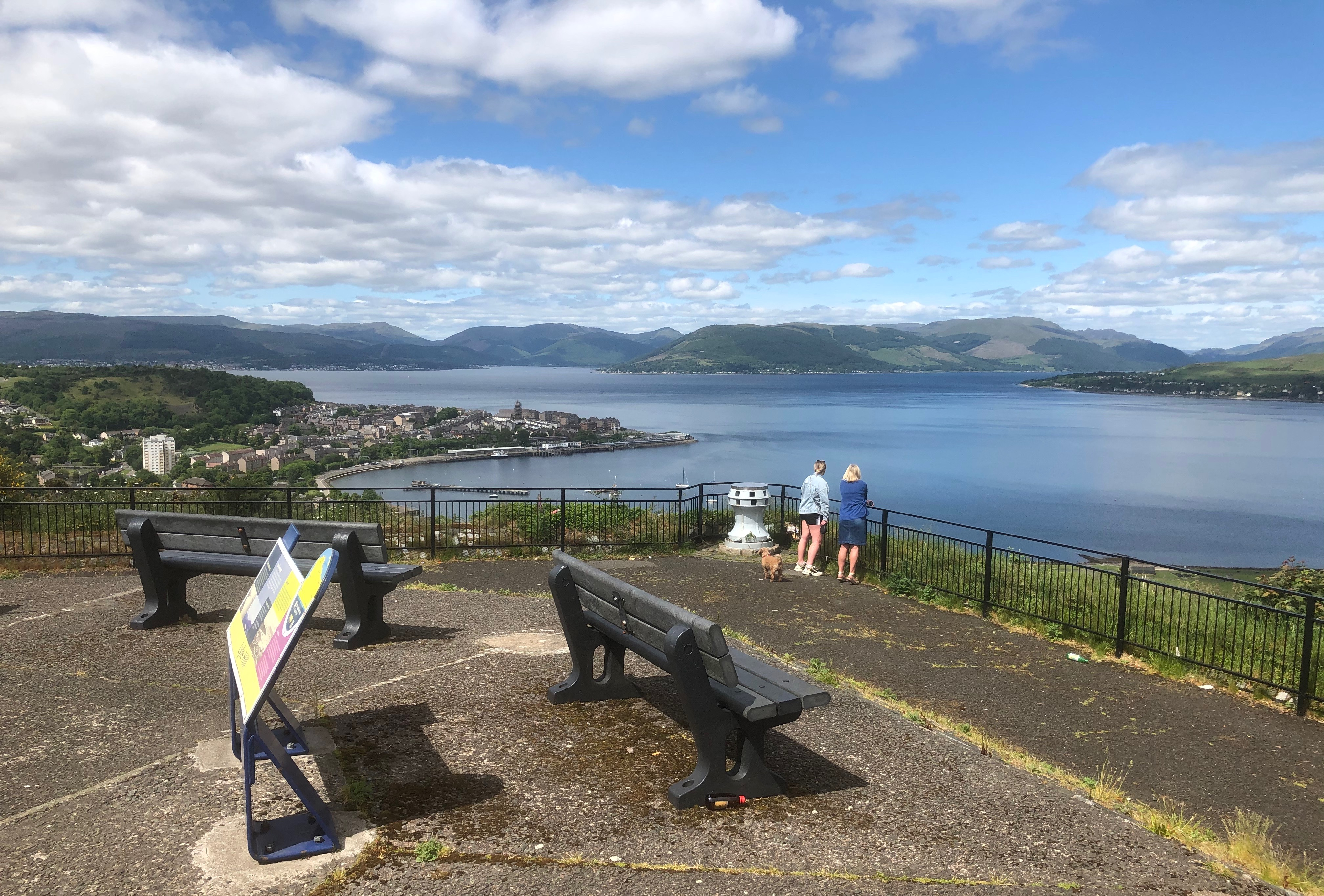 Lyle Hill scenic viewpoint, with information boards and benches on a higher platform, above the footpath around the top of the crags. At the turning point, the railing extends round a toposcope on a white painted capstan. The view west looks over Gourock and the Firth of Clyde to the Cowal hills around the Holy Loch, to its north Loch Long extends behind Barons Point and Kilcreggan.